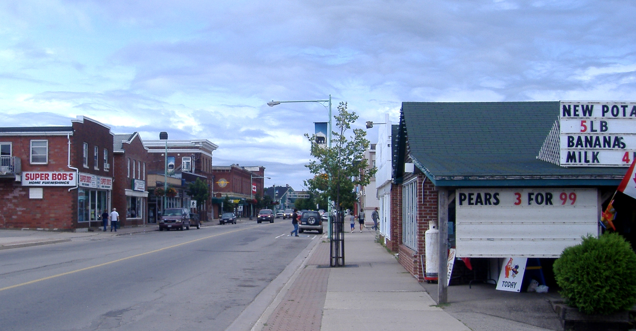 Permission is granted to copy, distribute and/or modify this document under the terms of the GNU Free Documentation License, Version 1.2 or any later version published by the Free Software Foundation; with no Invariant Sections, no Front-Cover Texts, and no Back-Cover Texts. Subject to disclaimers. Subject to disclaimers.